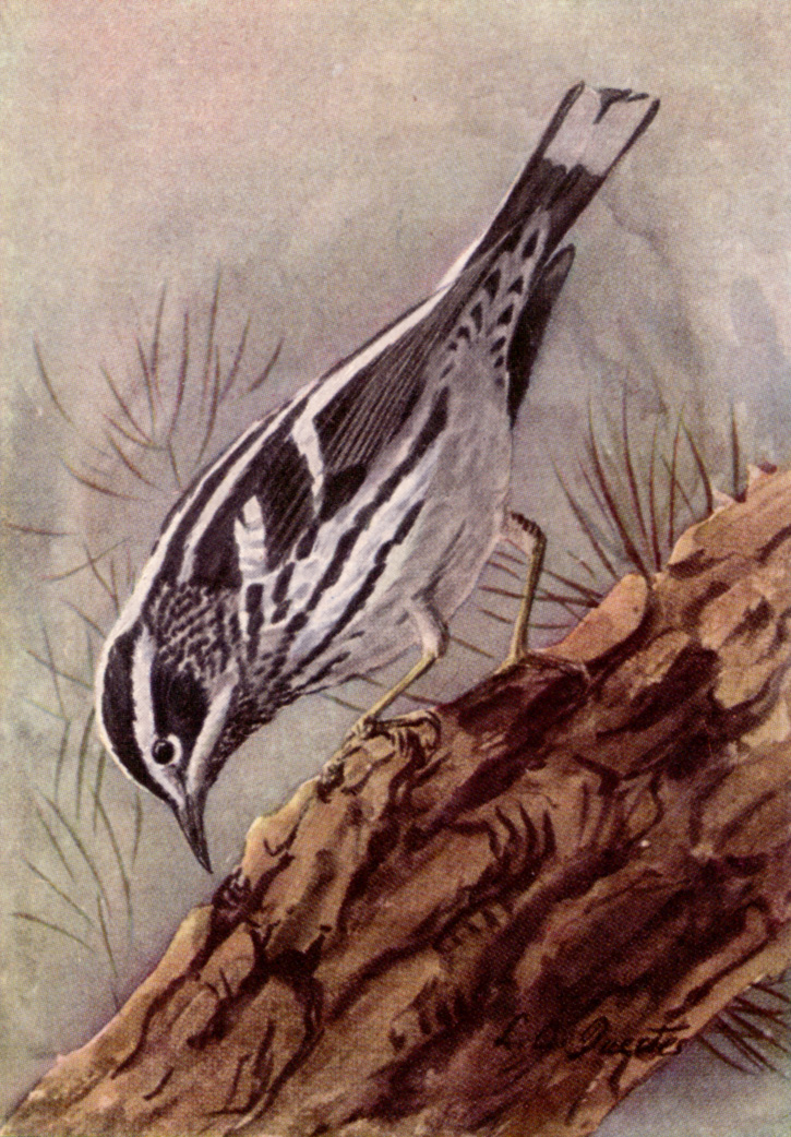 Black-and-white Warbler (Mniotilta varia)